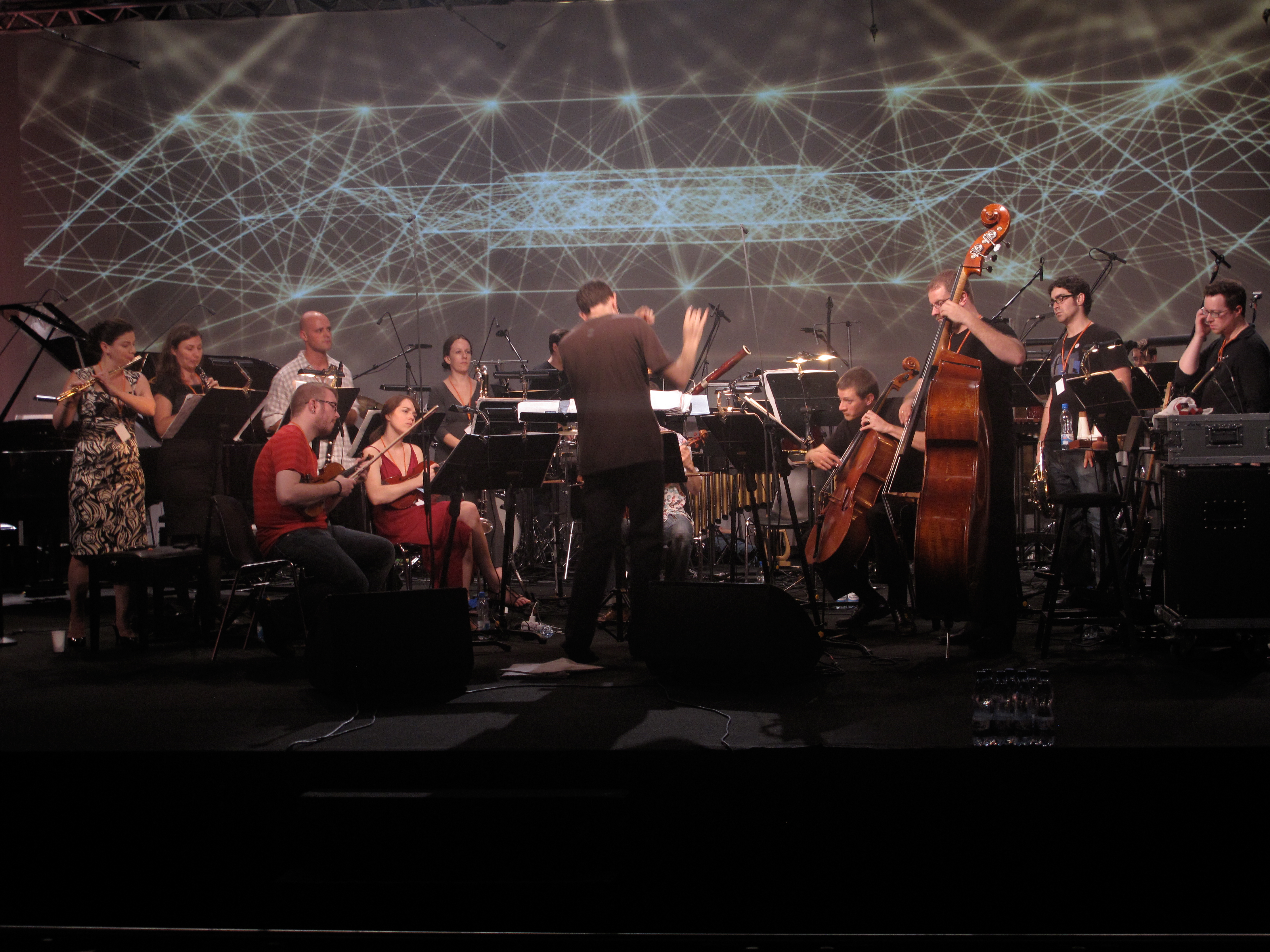 Alarm Will Sound at Sacrum Profanum in Krakow in 2011, Photo credit Michael Clayville